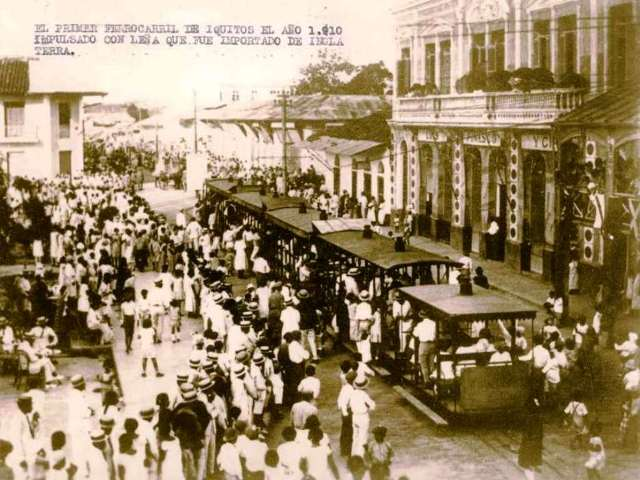 The first railway in Iquitos in 1910 propeled with firewood that was imported from England.